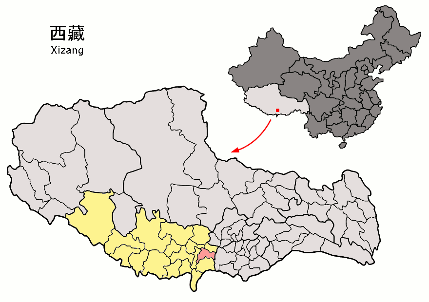 Location of Gyangzê County (pink) and Nyingchi prefecture (yellow) within Tibet (Xizang) autonomous region of China